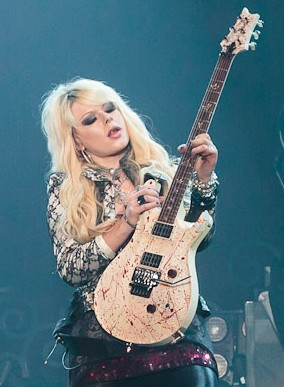 Orianthi